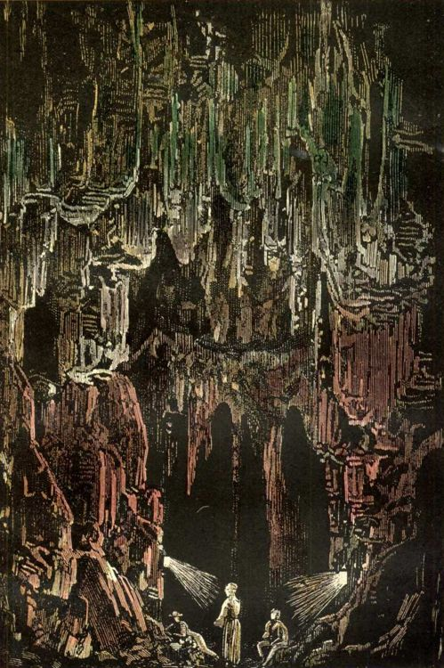 An ilustration from the novel "Journey to the Center of the Earth" by Jules Verne painted by Édouard Riou.